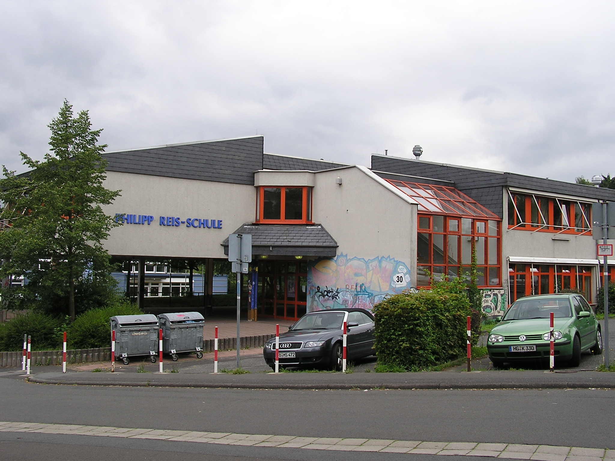 Building E (“E-Bau”) of the Philipp-Reis-Schule in Friedrichsdorf